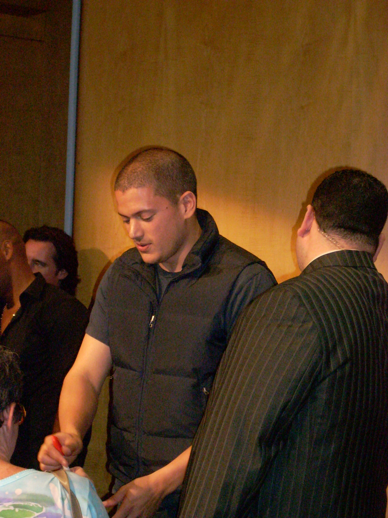 Wentworth Miller signs autographs after "Prison Break" at Paley Center for Media, Beverly Hills, California - Oct. 21, 2008